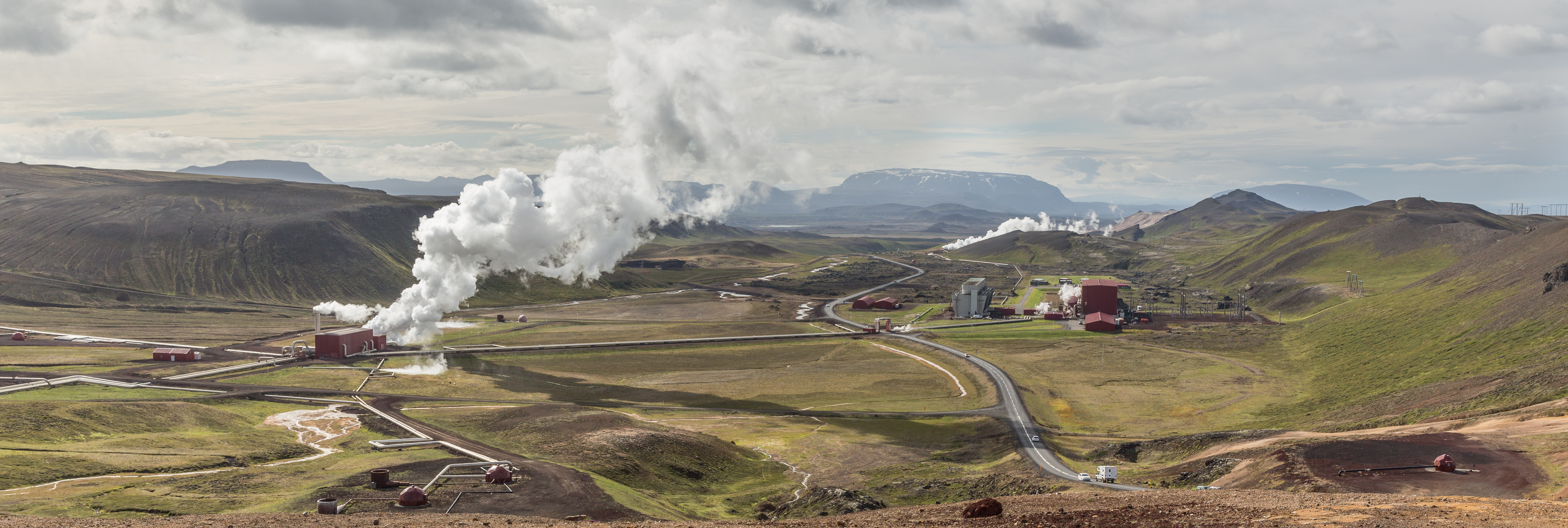 Krafla Power Station, located in the Krafla caldera, northern Iceland.